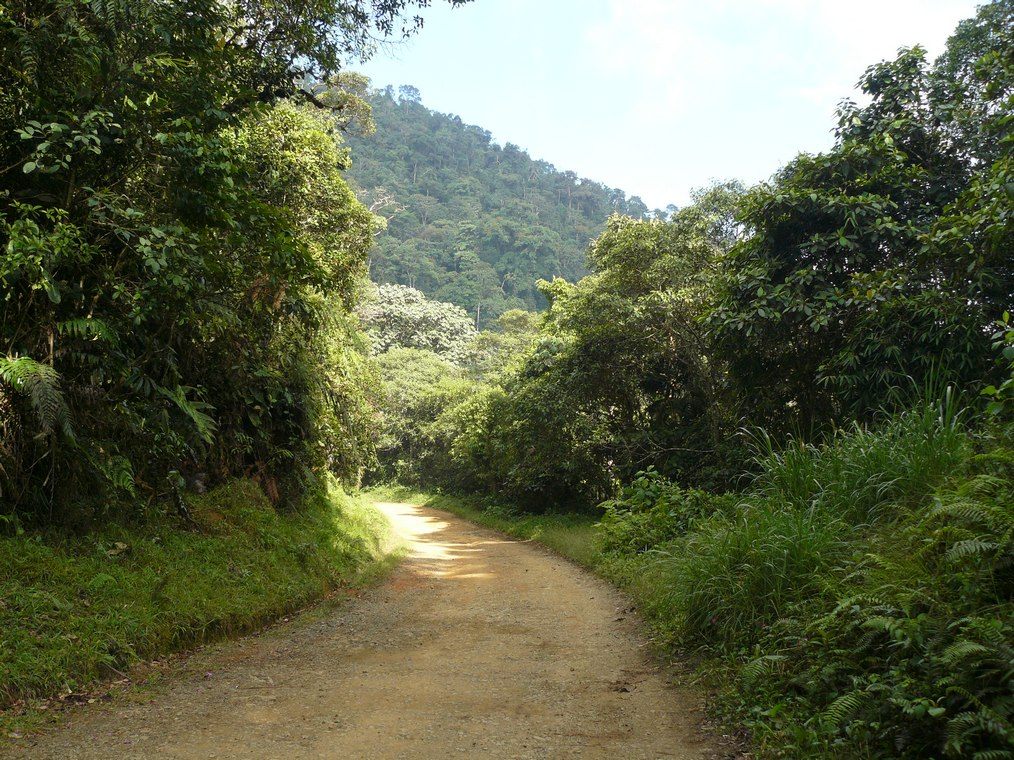 Road leading through the forest reserve that connects Dapa with Chicoral.